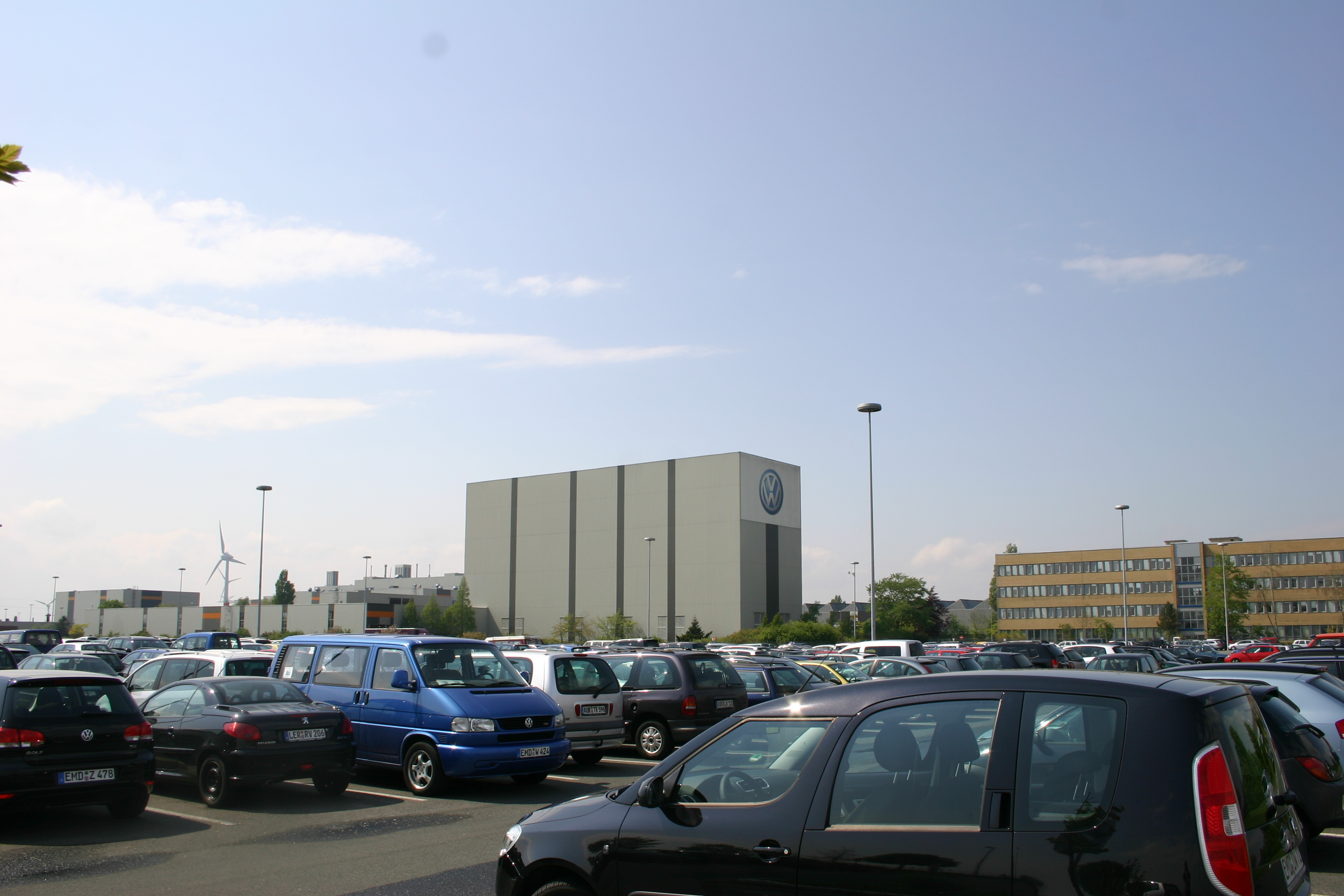 Part of the Volkswagen plant in Emden, East Frisia, Germany, where the VW Passat is produced